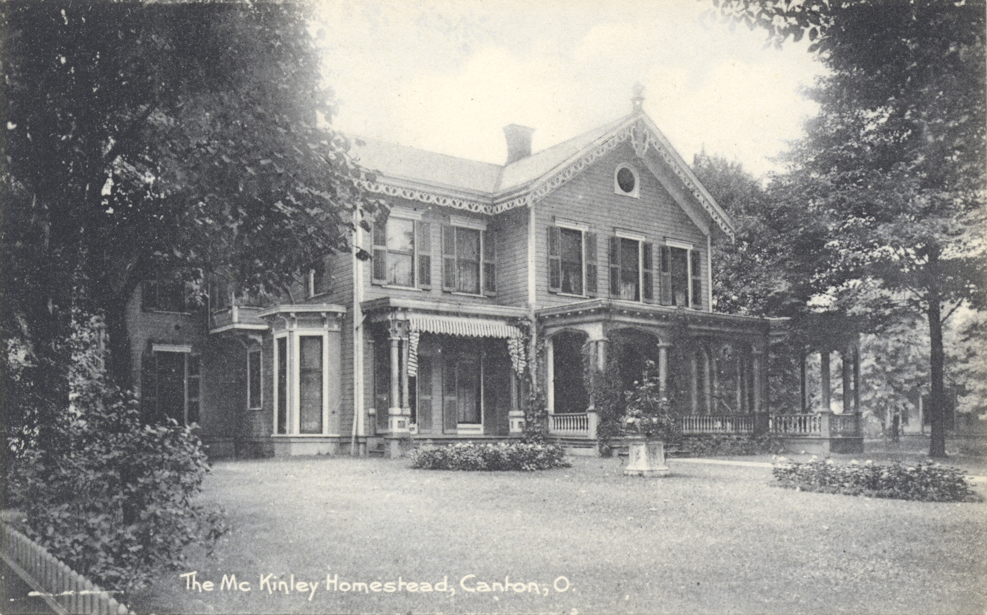 Persistent URL: Subject (TGM): Historic sites; Presidents; Ohio--Canton